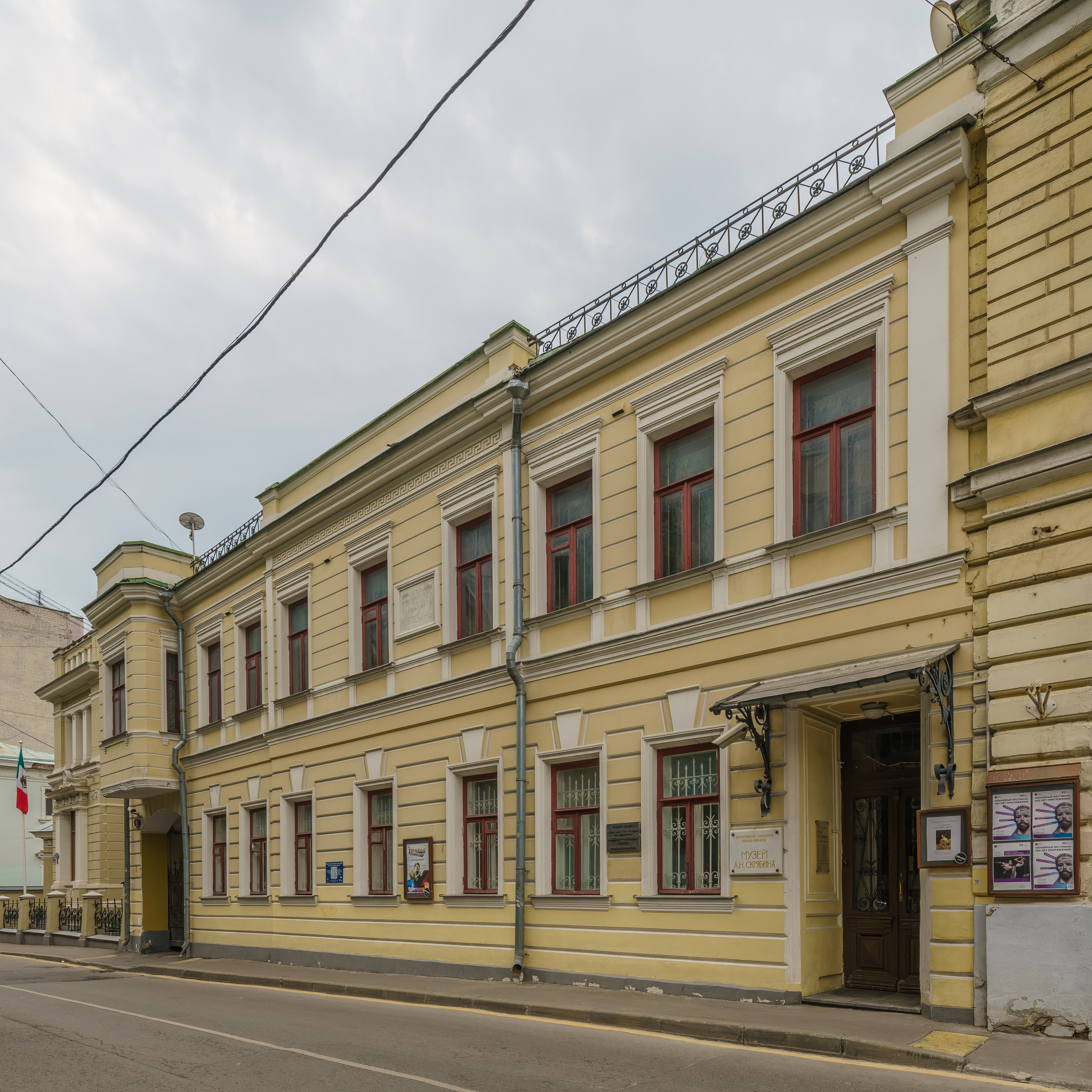 Building at Bolshoy Nikolopeskovsky Lane 11 in Moscow, Russia